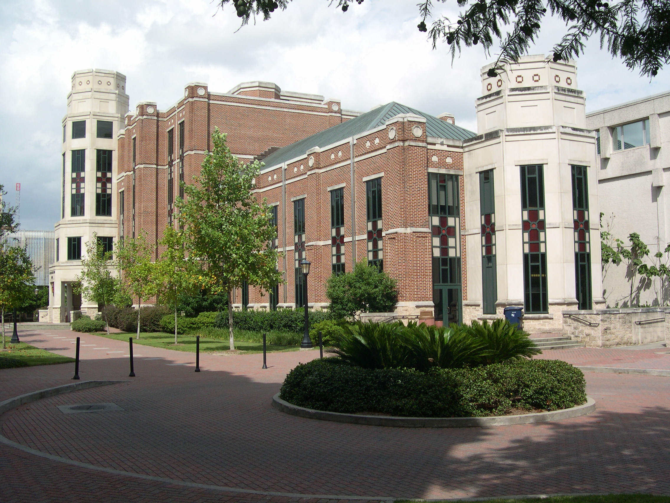 Monroe library, Loyola University New Orleans Photo August 2004 by Matt Lexcen